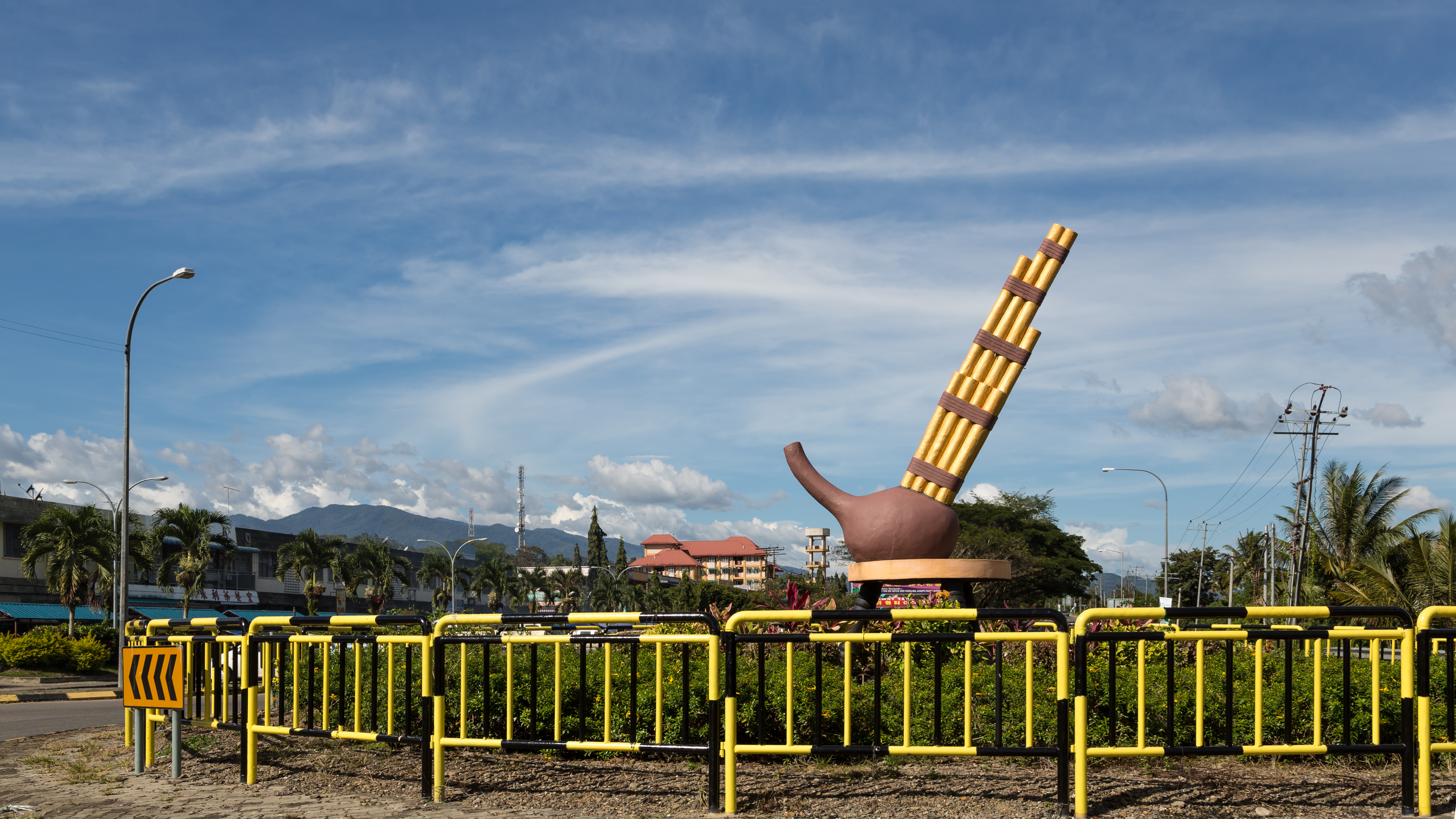 Tambunan, Sabah: Roundabout at Tambunan wih sculpture of Sompoton, a typical musical instrument of Sabah